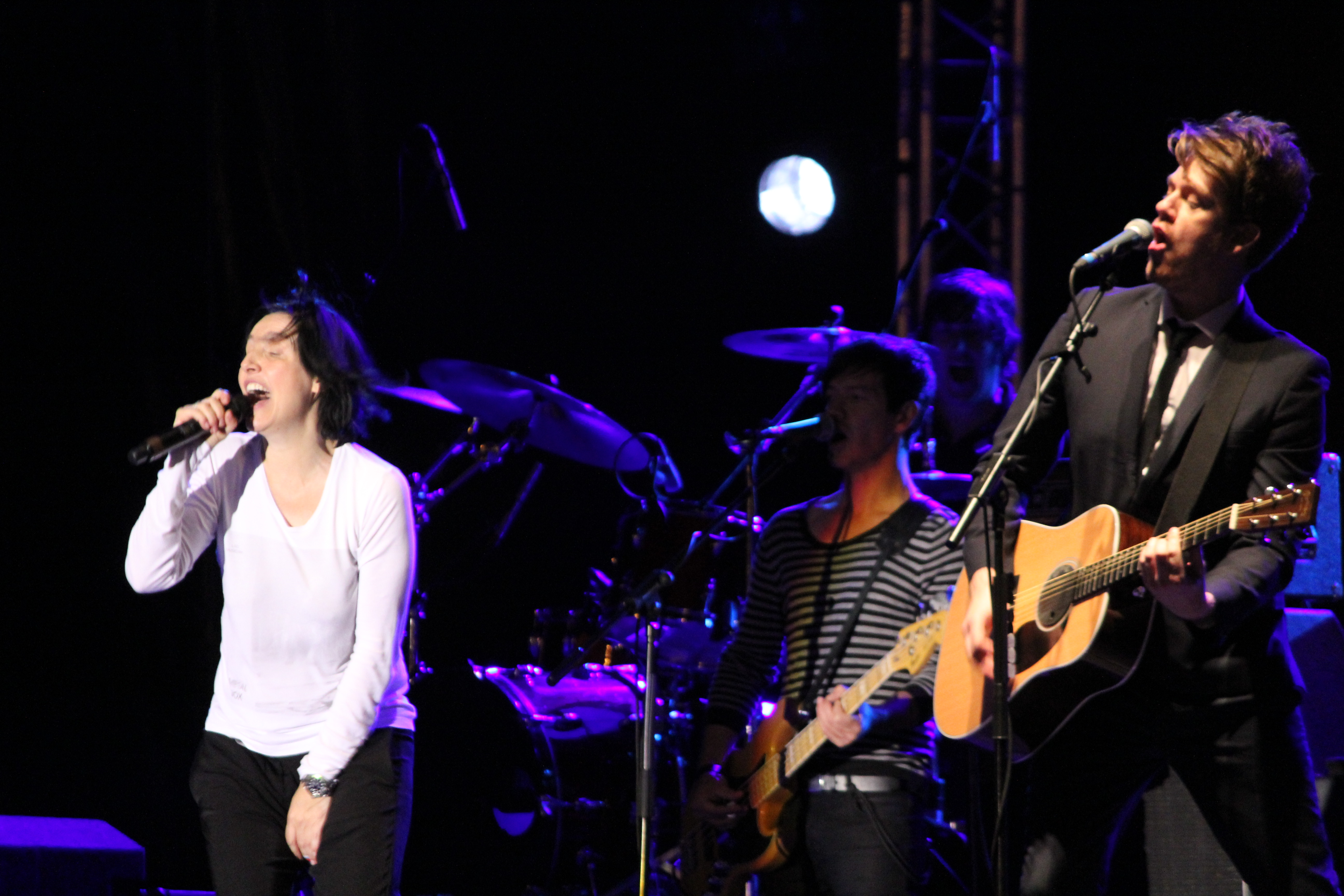 Texas band playing at Keroman fishing port in Lorient during the 2011 edition of the festival interceltique.